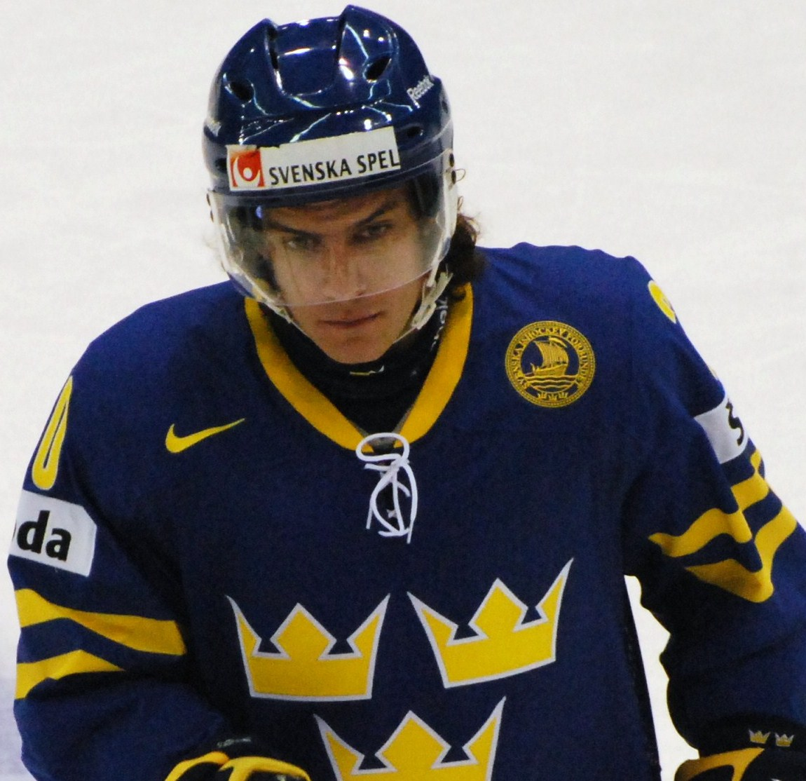 Andre Petersson during a game against Austria at the 2010 World Junior Championships.